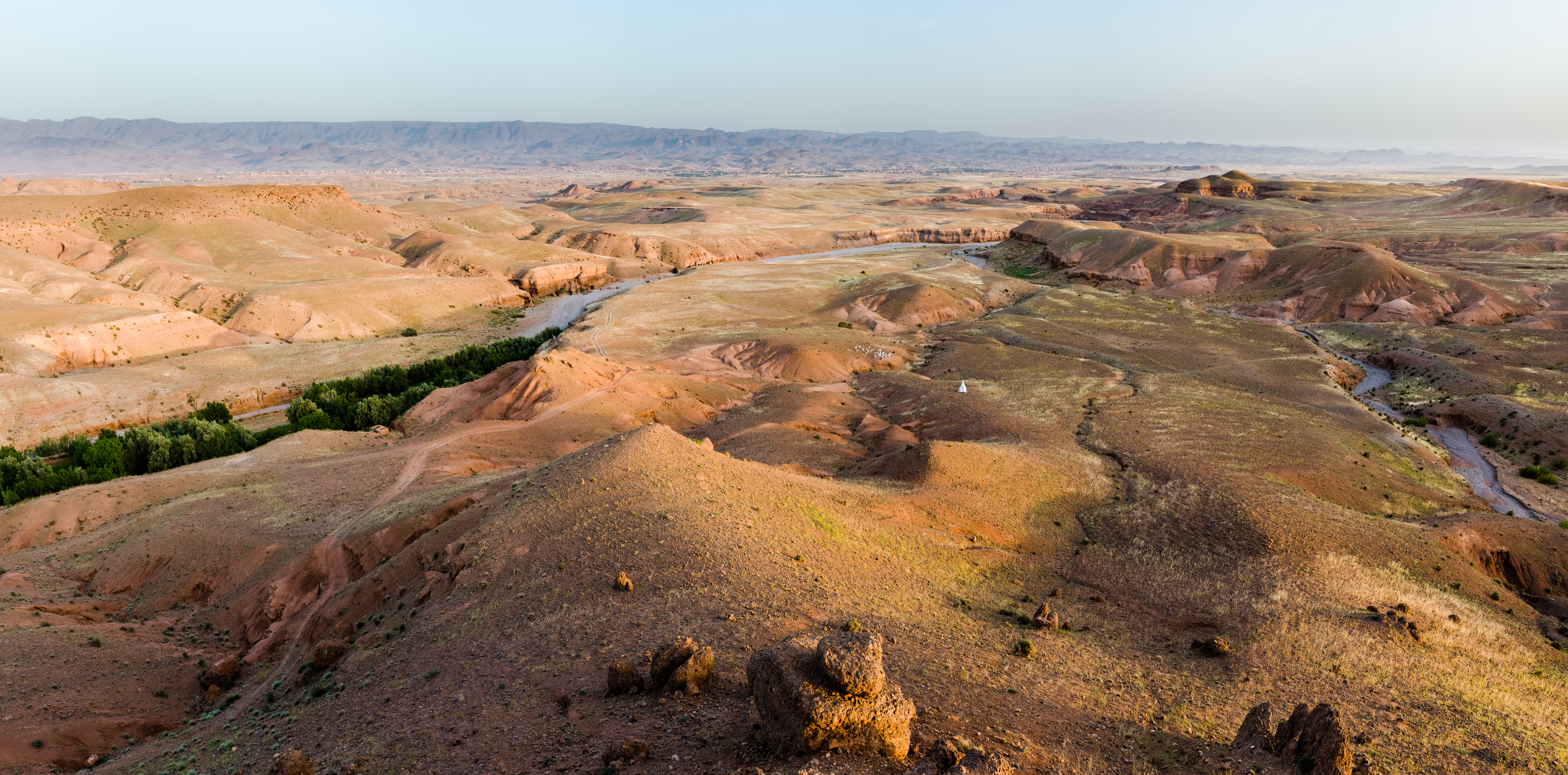 Imiter Oasis (on the left) at golden hour. The cities in the far distance are Zaouiet Sidi Abdelmalek and Ait Sedrate Sahl El Gharbia.